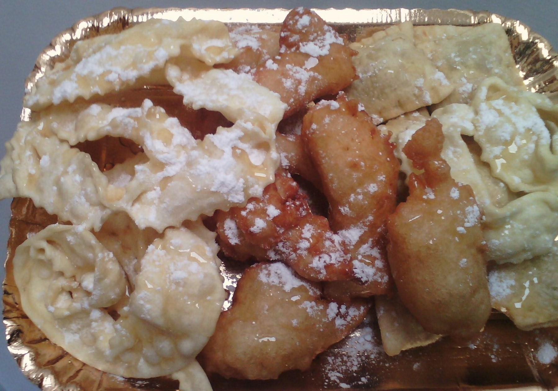 Tipic sweets, Satriano di Lucania, PZ, Italy